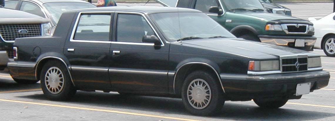 1988-1993 Dodge Dynasty photographed in USA.